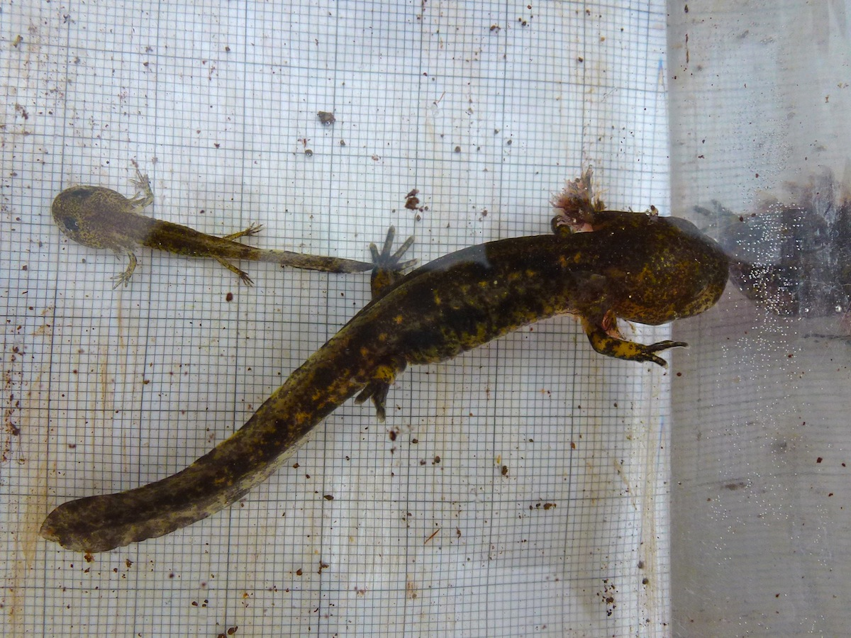 Young and very large larvae of Salamandra infraimmaculata, Ein Kamon, Israel